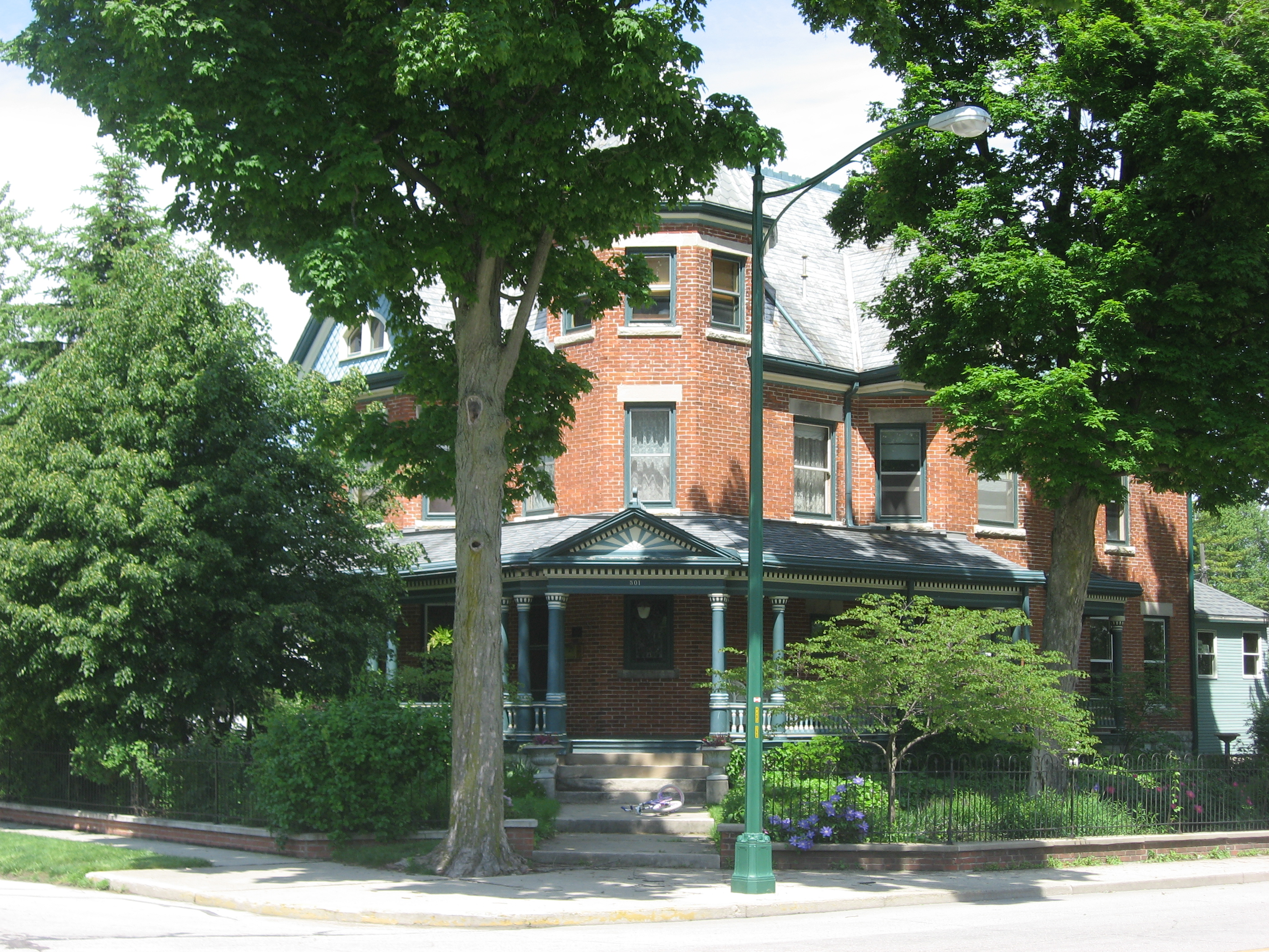 Front of the William Kerr House, located at 501 N. Columbia Street (State Road 28) in Union City, Indiana, United States. Built in 1896, it is listed on the National Register of Historic Places.